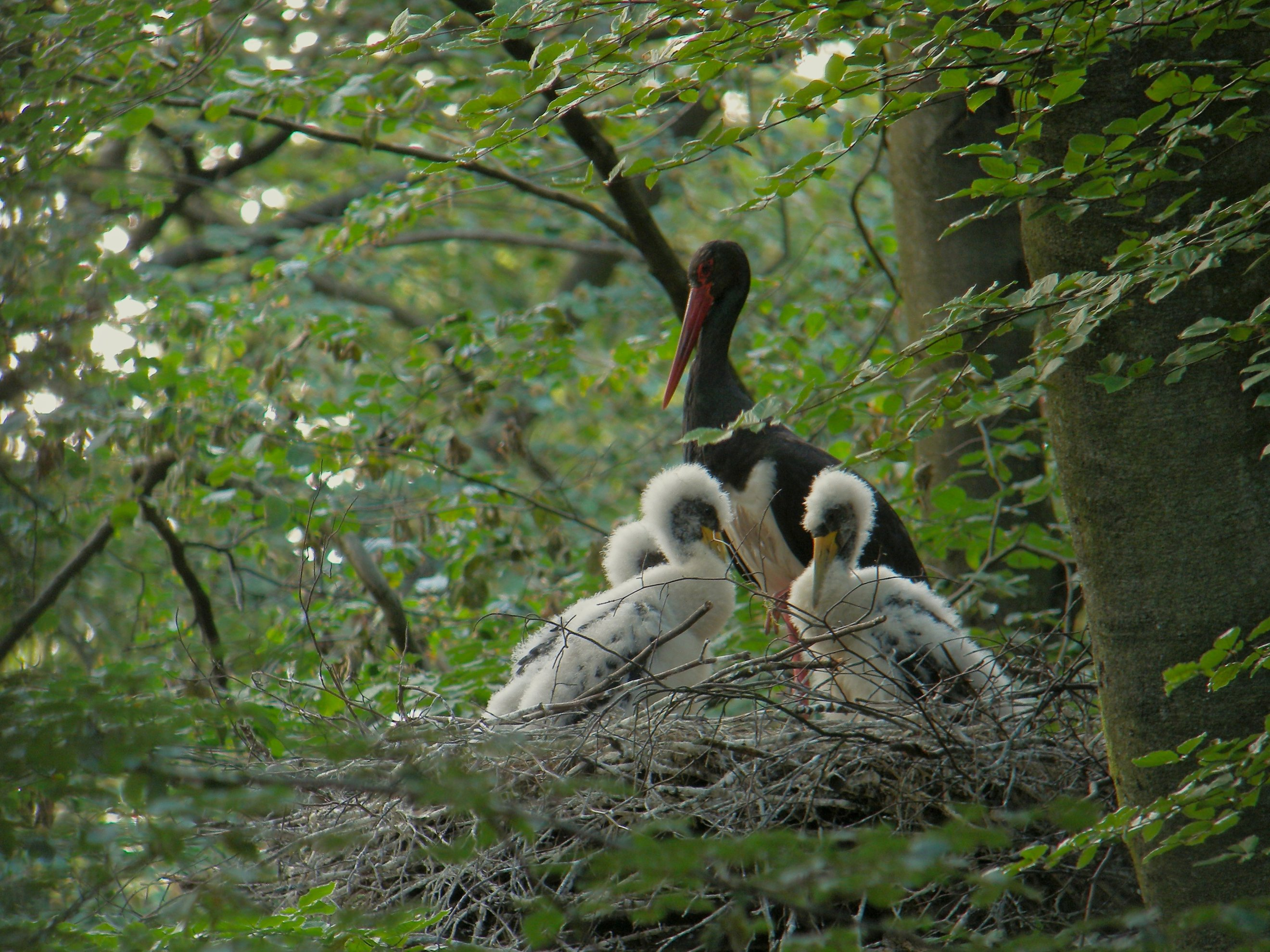 Black Storks in their nest in the Eastern Ardennes, Belgium